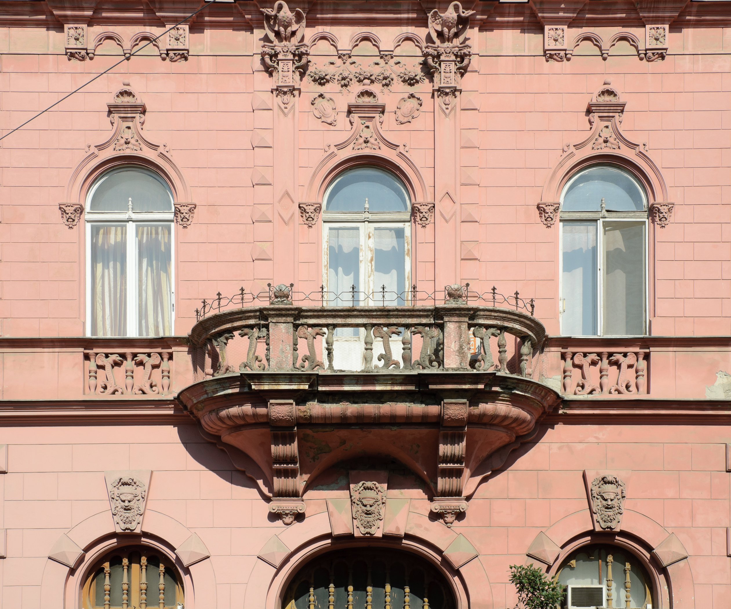 Detail of Milko Palace in Stefánia st., Szeged, Hungary.